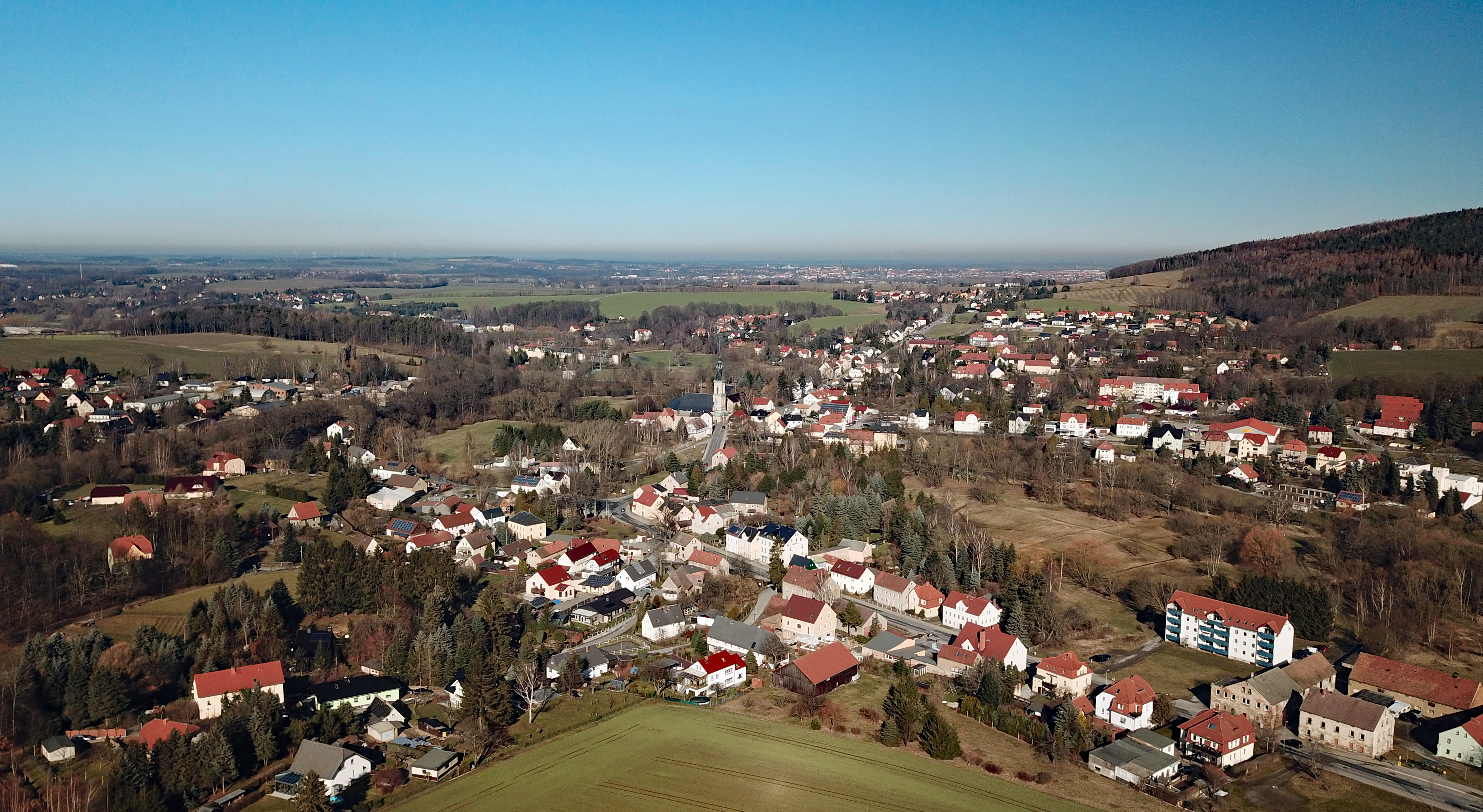 Großpostwitz, Saxony, Germany Hornjoserbsce: Powětrowy wobraz Budestec